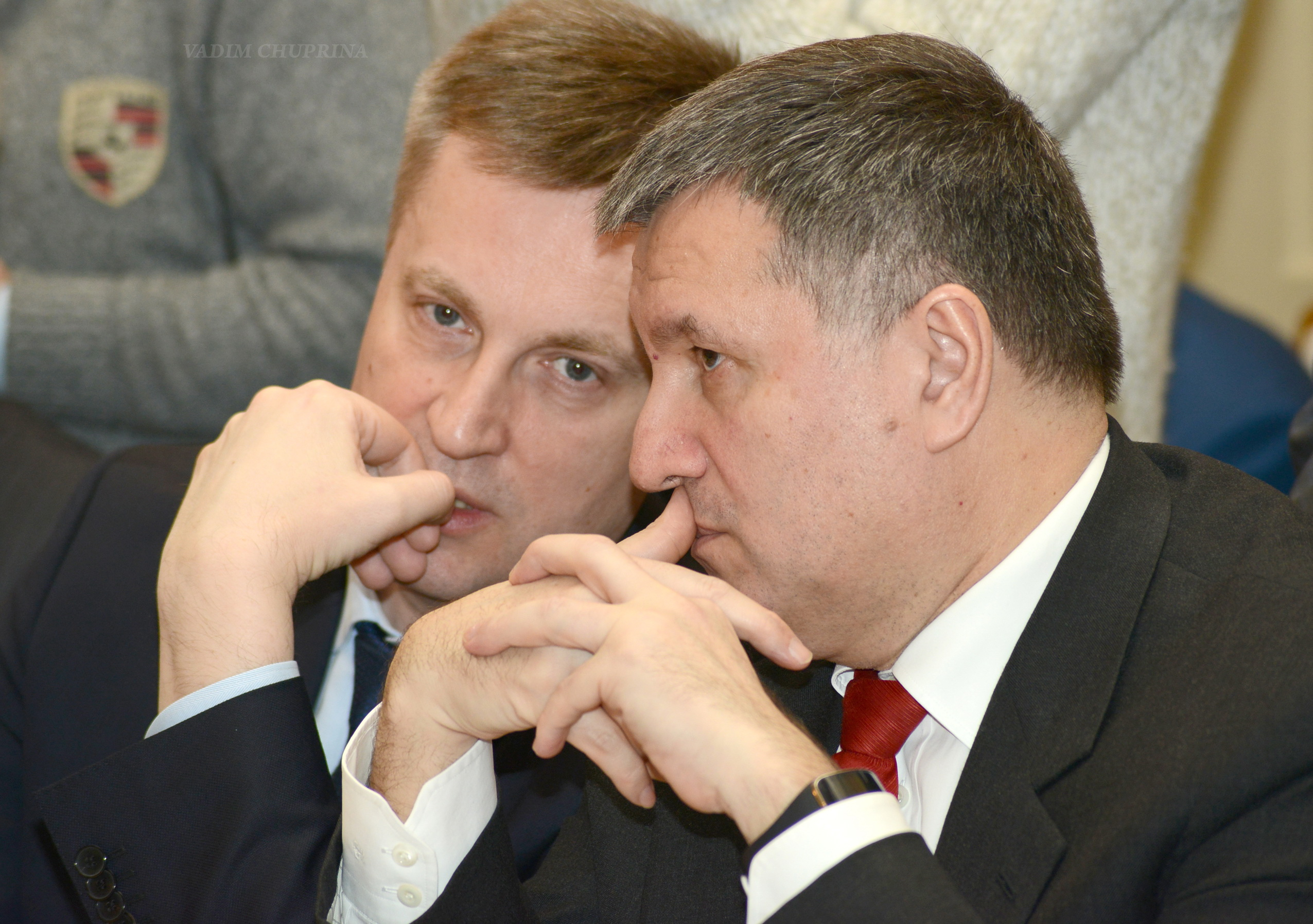 Ukrainian politicians VADIM CHUPRINA